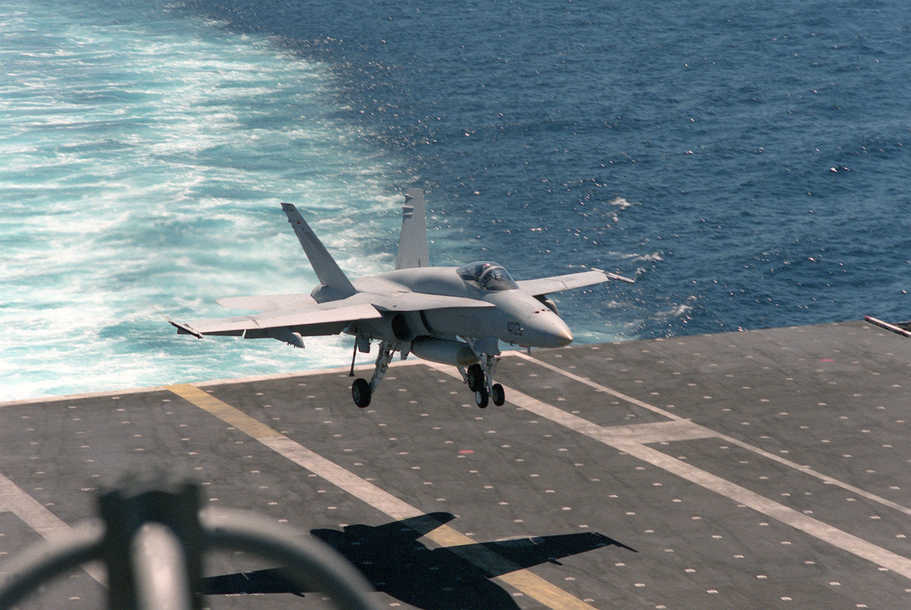 A U.S. Navy McDonnell Douglas F/A-18A Hornet from Strike Fighter Squadron VFA-161 Chargers approaching the the flight deck of the aircraft carrier USS Enterprise (CVN-65) on 1 July 1987. The carrier was en route to the Sea Fair Festival in Seattle, Washington (USA). VFA-161 was assigned to the short-lived Carrier Air Wing 10 (CVW-10, tail code "NM"). It was established in November 1986 and should have been assigned to the USS Independence (CV-62). However, it was only once deployed on the Enterprise for a short tour along the US Pacific coast and was disestablished again with all squadrons in November 1988.